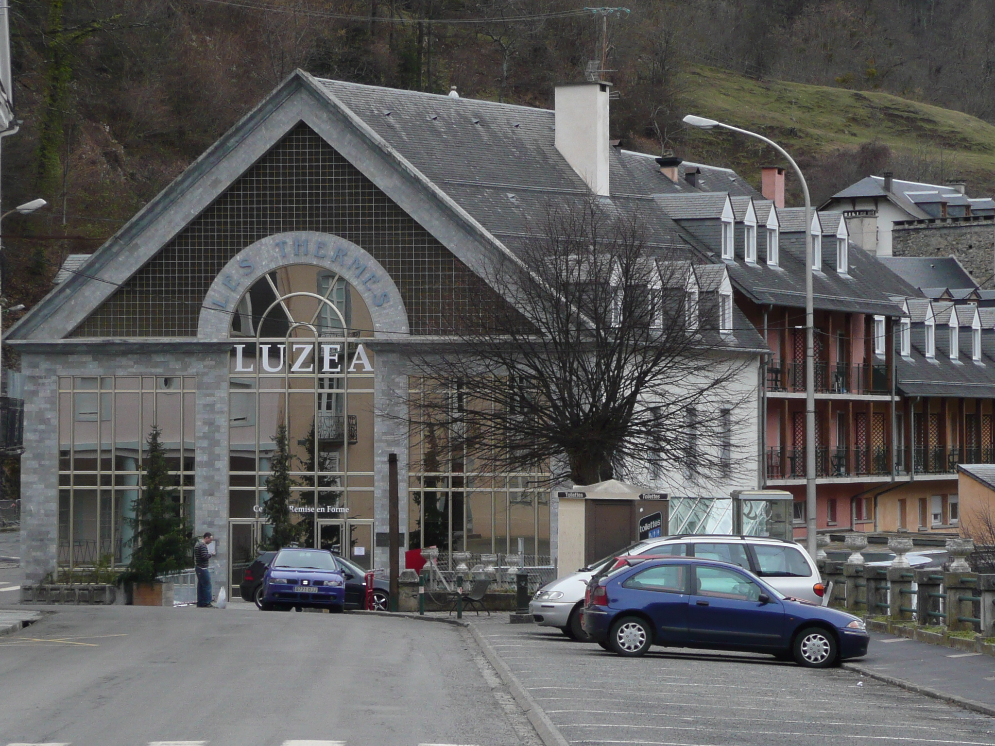 View of main entrance of thermal center in Luz Saint Sauveur, Hautes Pyrénées, France